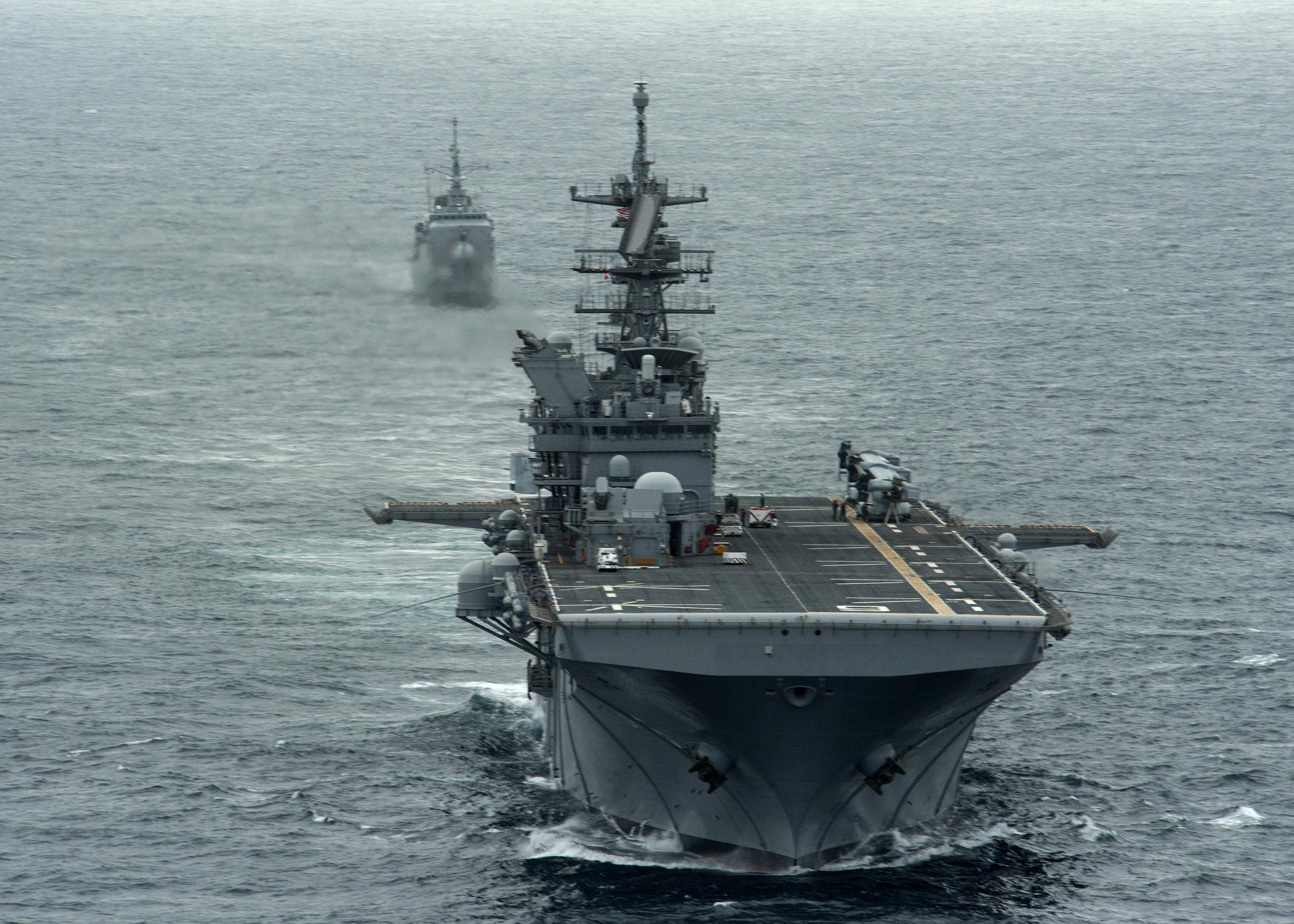 The U.S. Navy amphibious assault ship USS America (LHA-6) underway with the Brazilian navy frigate Unio (F45). United States and Brazilian navies were participating in bilateral training exercises, officer exchanges and senior leadership engagements during the USS America´s port visit to Rio De Janerio, Brazil.